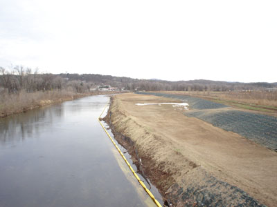 View of Roanoke River in Virginia